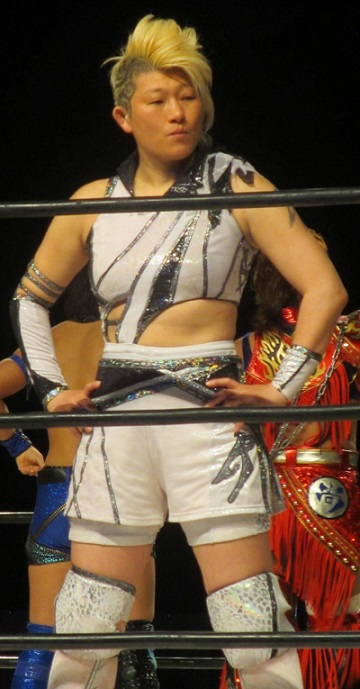 Japanese professional wrestler,AKINO. Apr 9 2016, OZ Academy Yokohama International Passenger Terminal Hall.